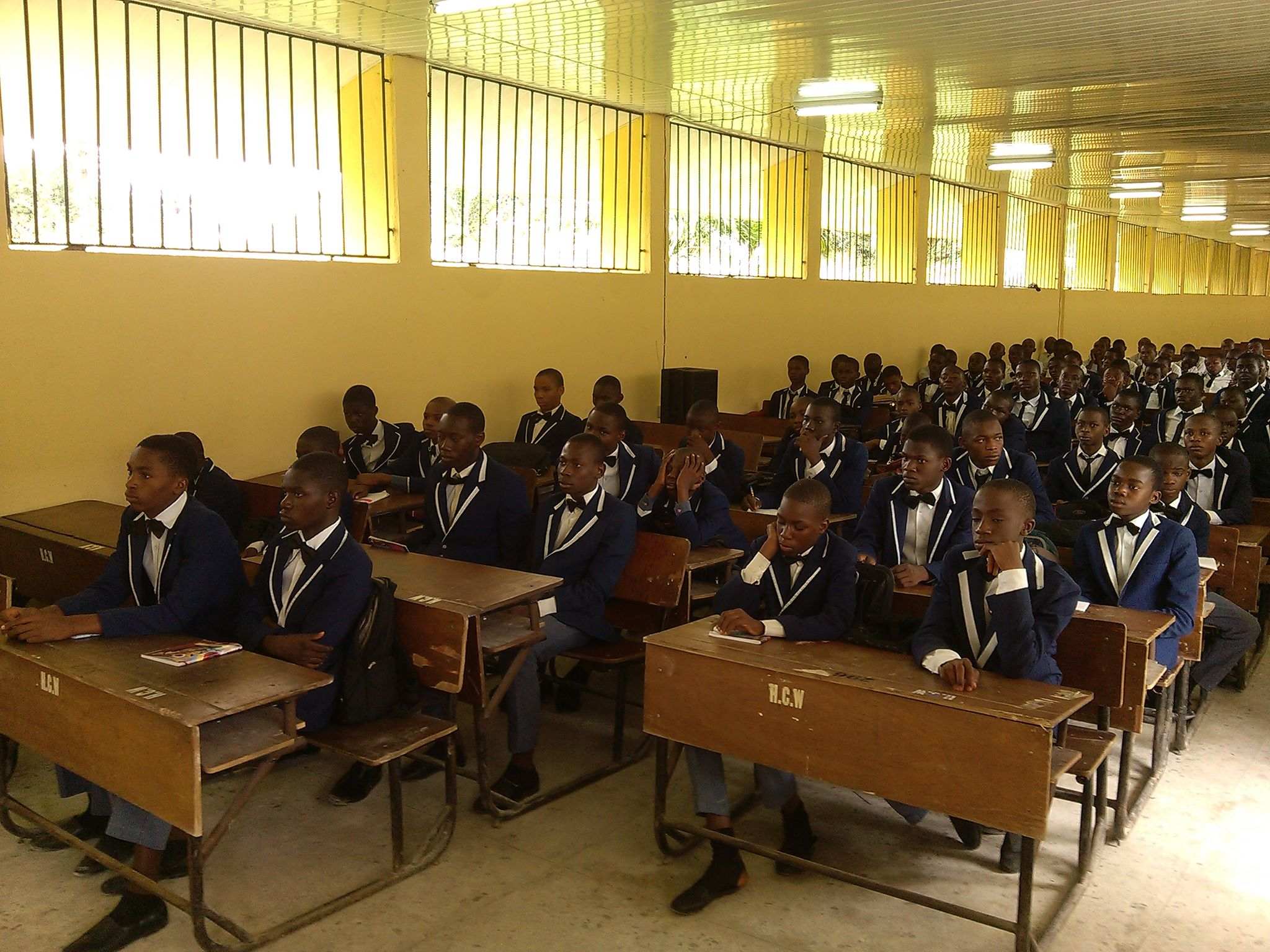 A Cross Section oh Hussey Model College Students in School Uniform